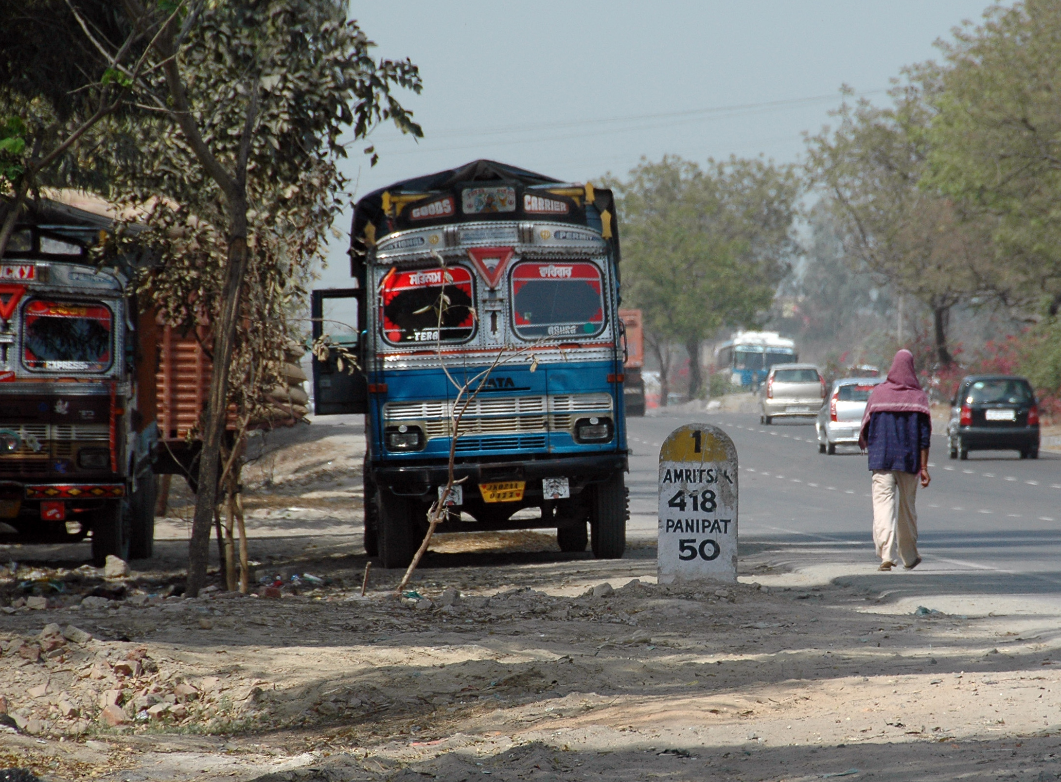 A highway restaurant on National Highway 1, also known as the Grand Trunk Road, in Haryana, India.